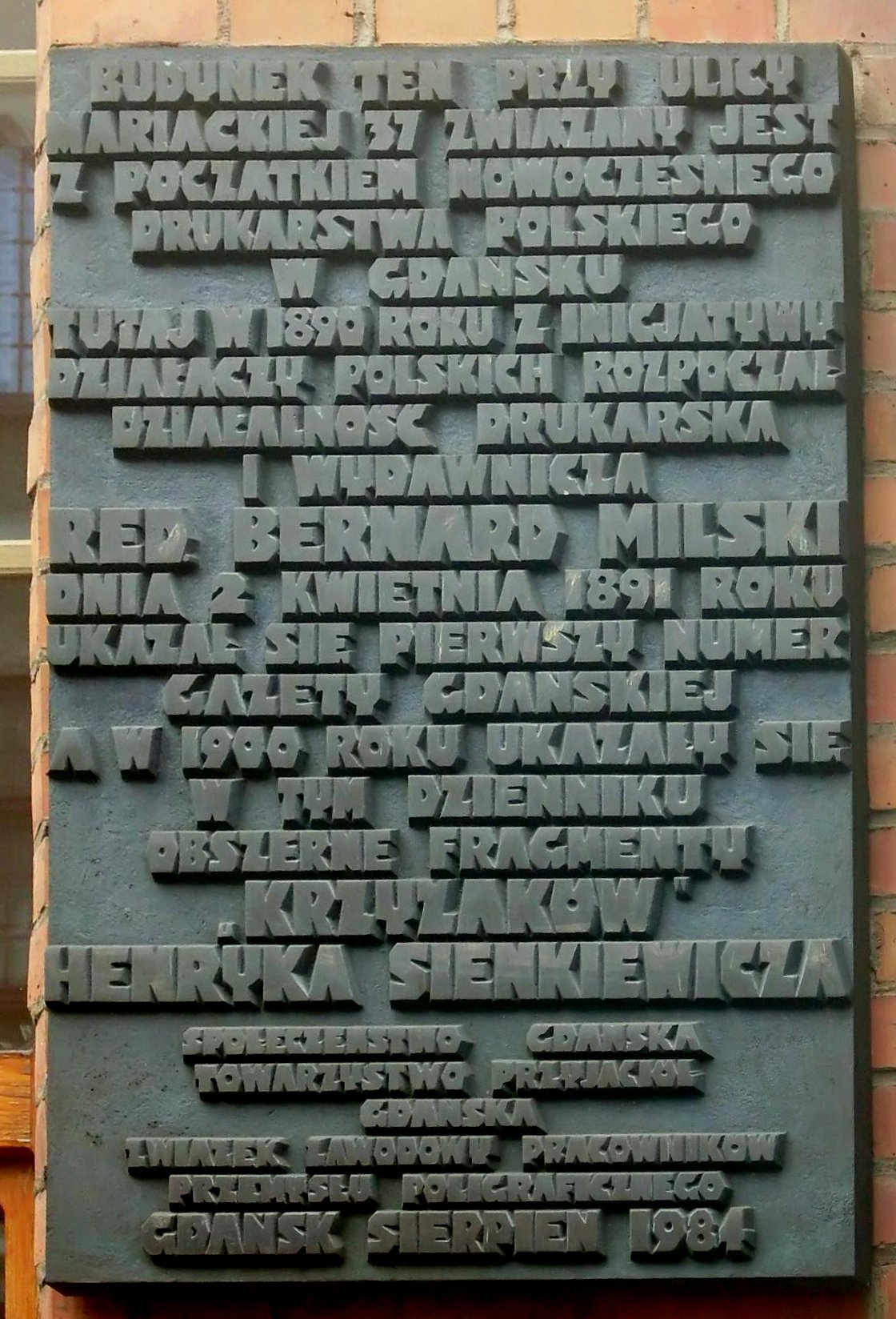 Plaque at Mariacka 36 Street in Gdańsk. But at plaque is written that it is 37. Commemorates the place, wherein one began the printing of the Polish newspaper the Newspaper of Gdańsk (Gazeta Gdańska) in the year 1891.